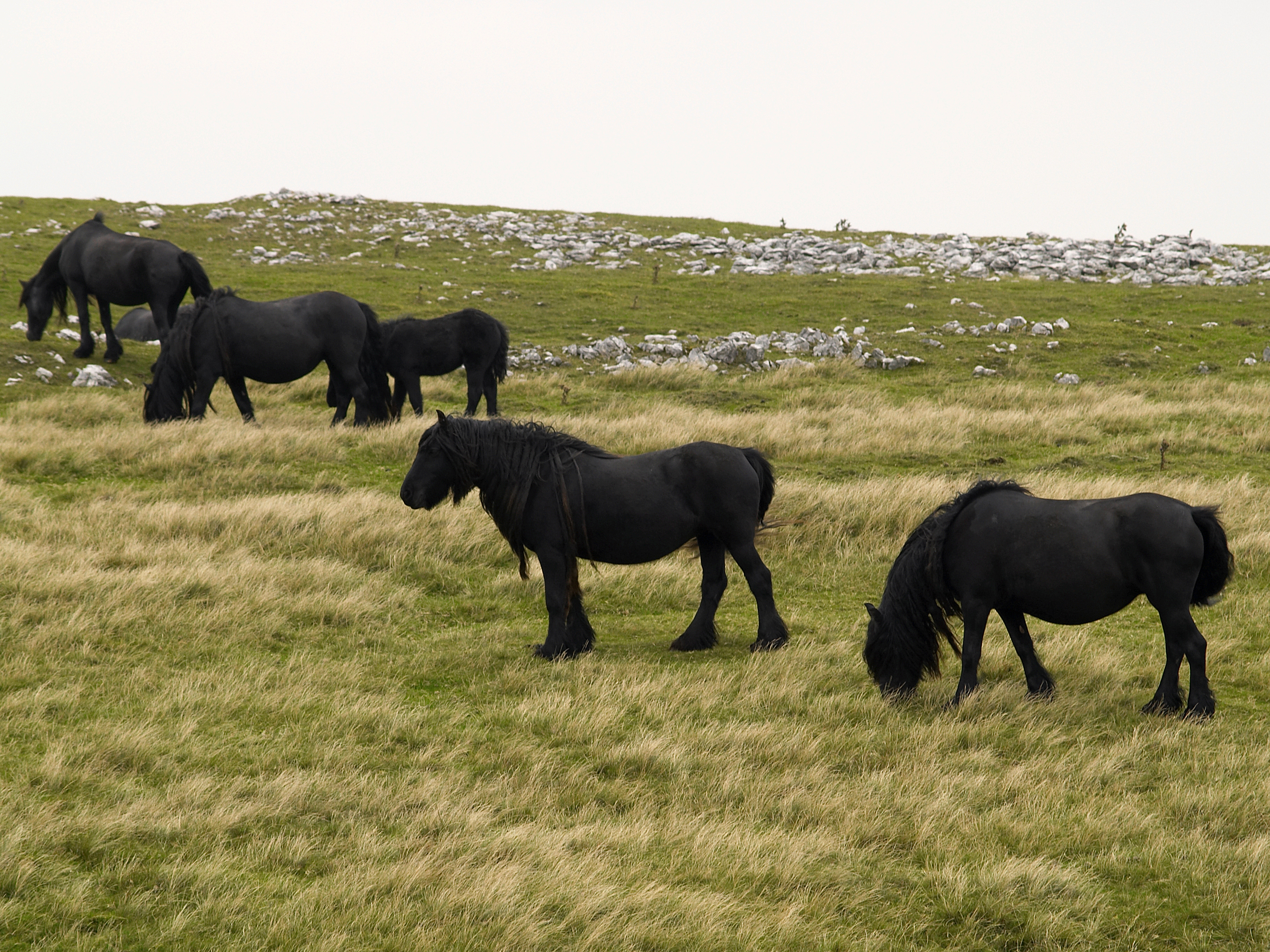 Dales Pony, Wild Boar Fell, Cumbria, England